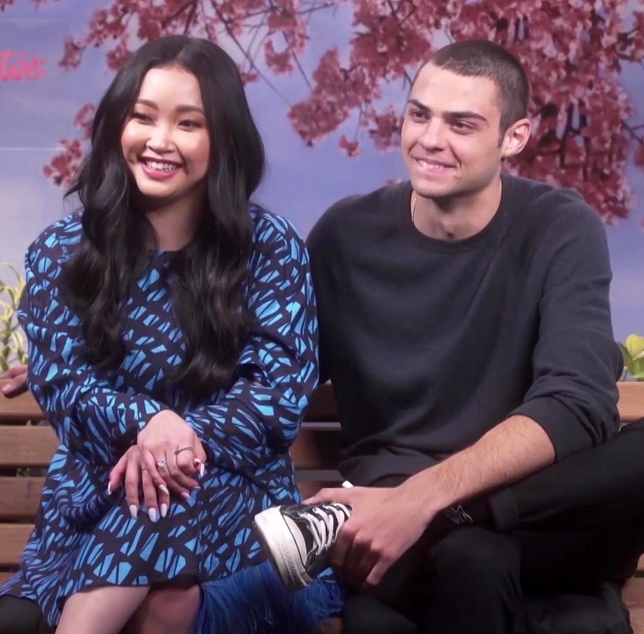 Interview with actors from the movie To All the Boys: P.S. I Still Love You, Lana Condor (Lara Jean) and Noah Centineo (Peter Kavinsky).